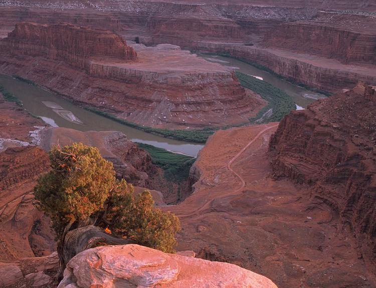 The Colorado River from Dead Horse Point State Park, near Moab in Utah, USA.